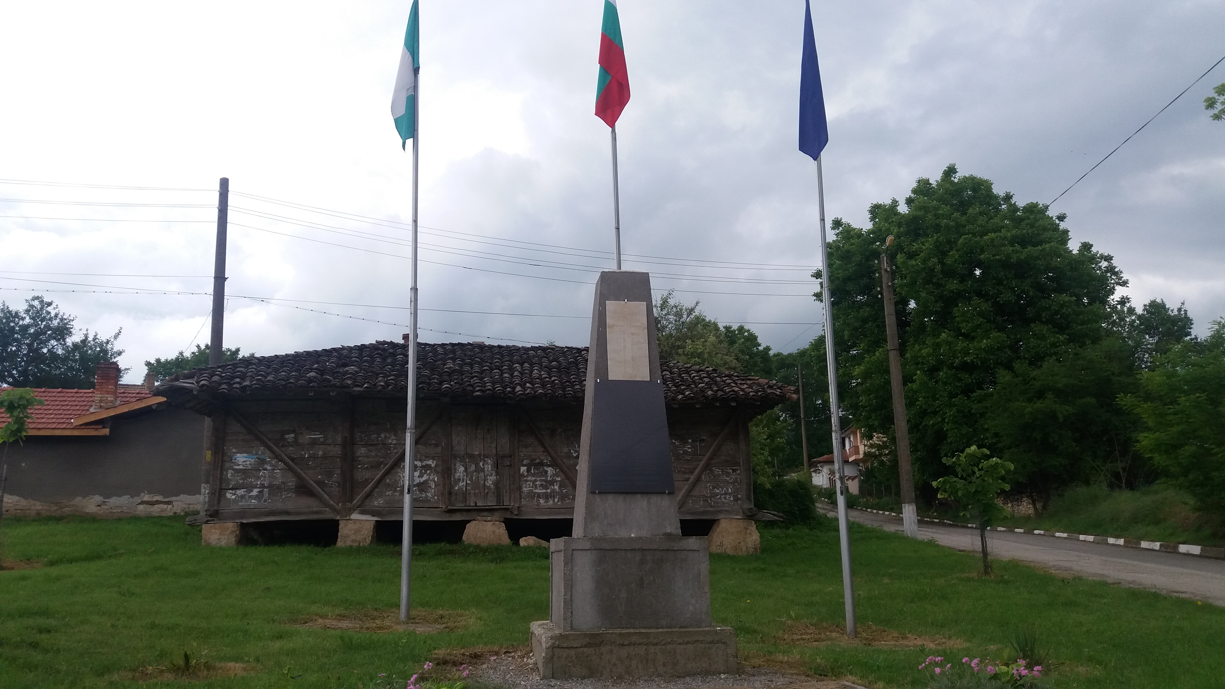 The centenial barn and the War memorial in Ushintzi